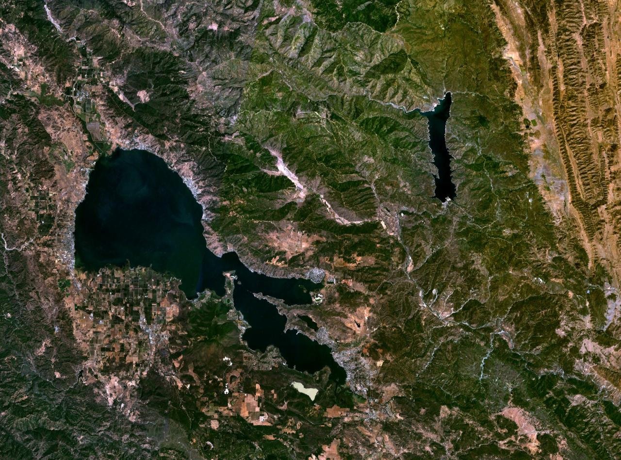 Clear Lake (to the left) and Indian Valley Reservoir (the smaller body of water to the right), in Lake County, northern California. NASA Landsat 7 satellite image.